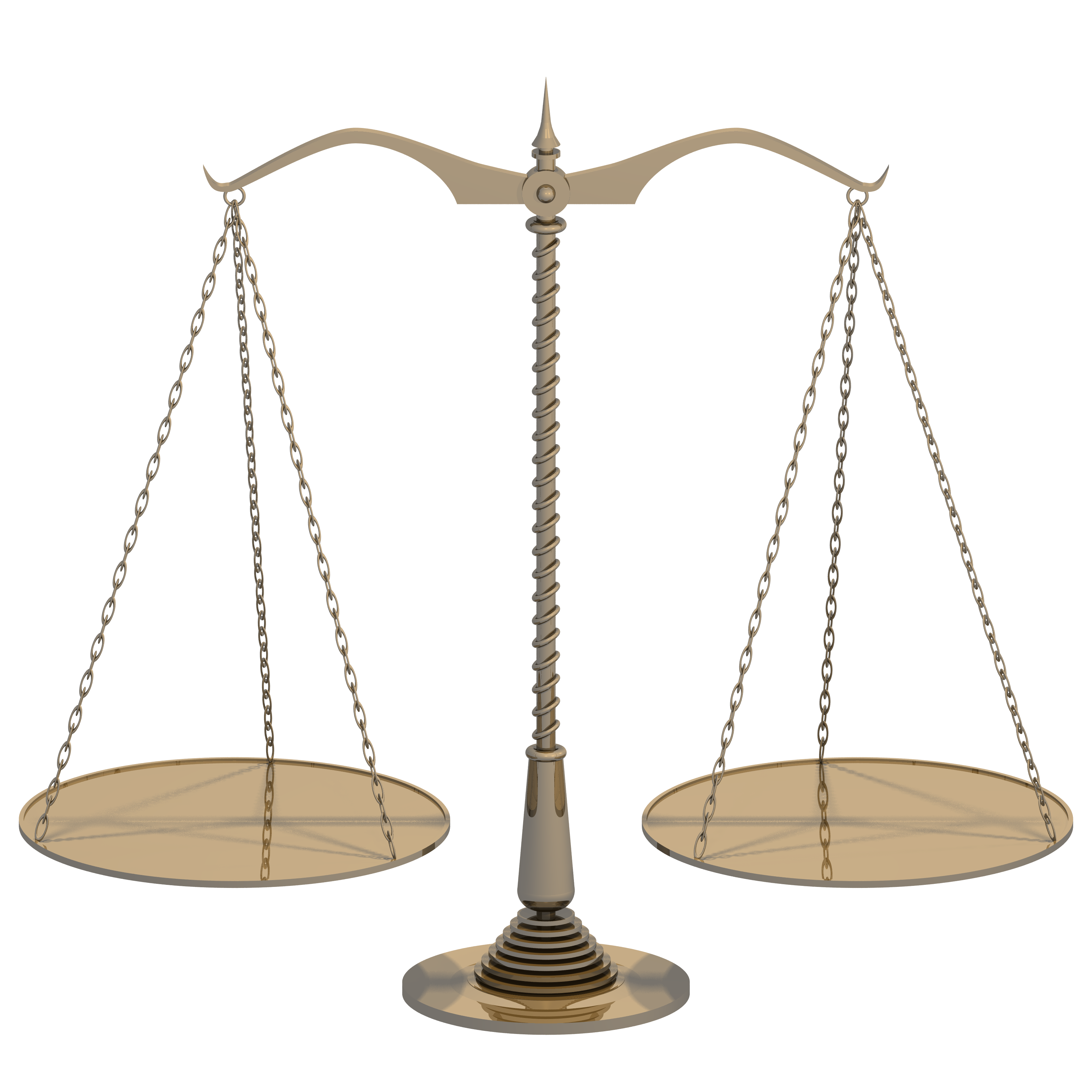 Brass weight scales with flat trays. Created with POV-ray.